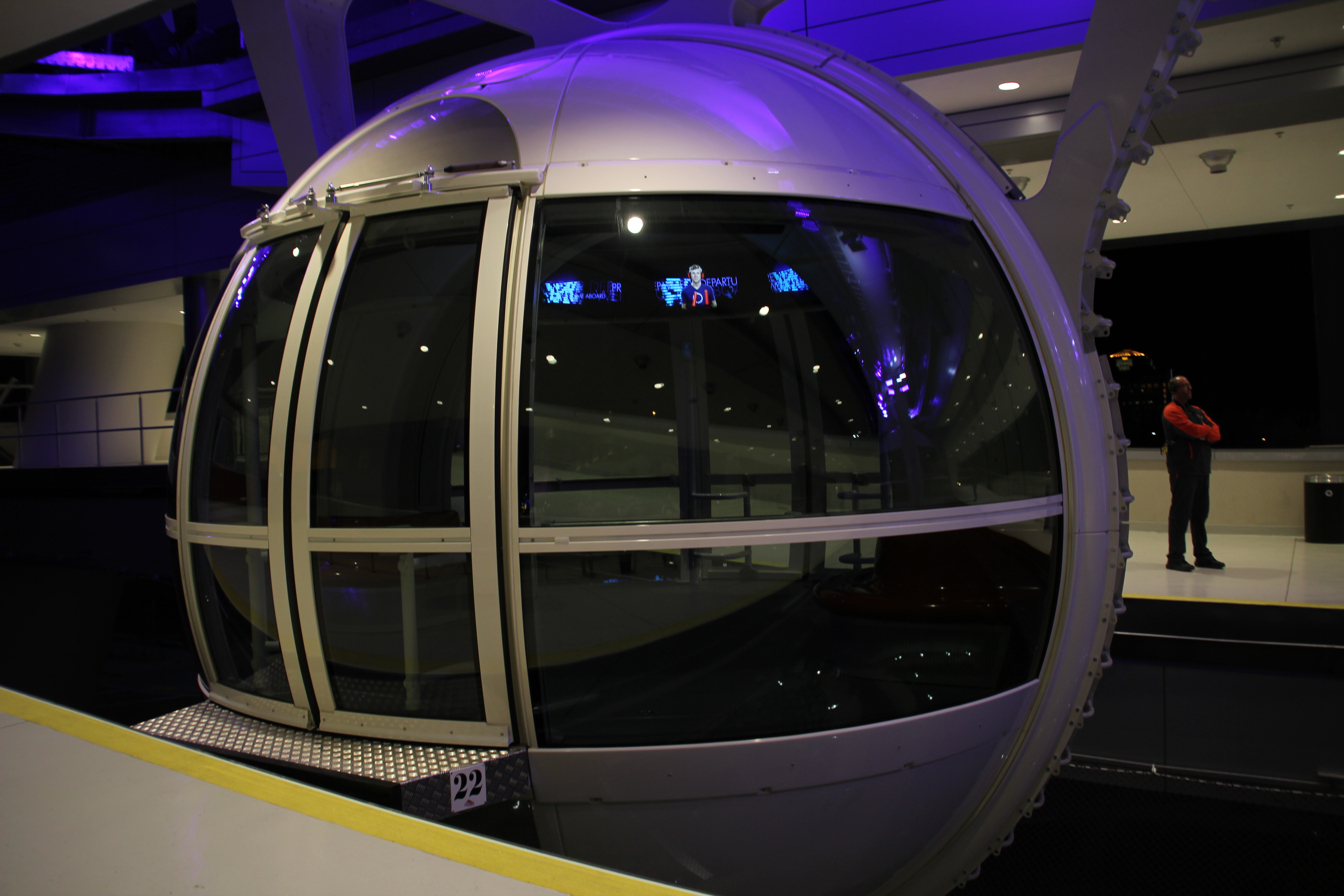 One of the 28 cabins on The High Roller ferris wheel in Las Vegas, Nevada